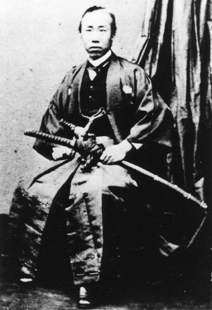 Michihira Iwashita, taken in Paris on 1867.